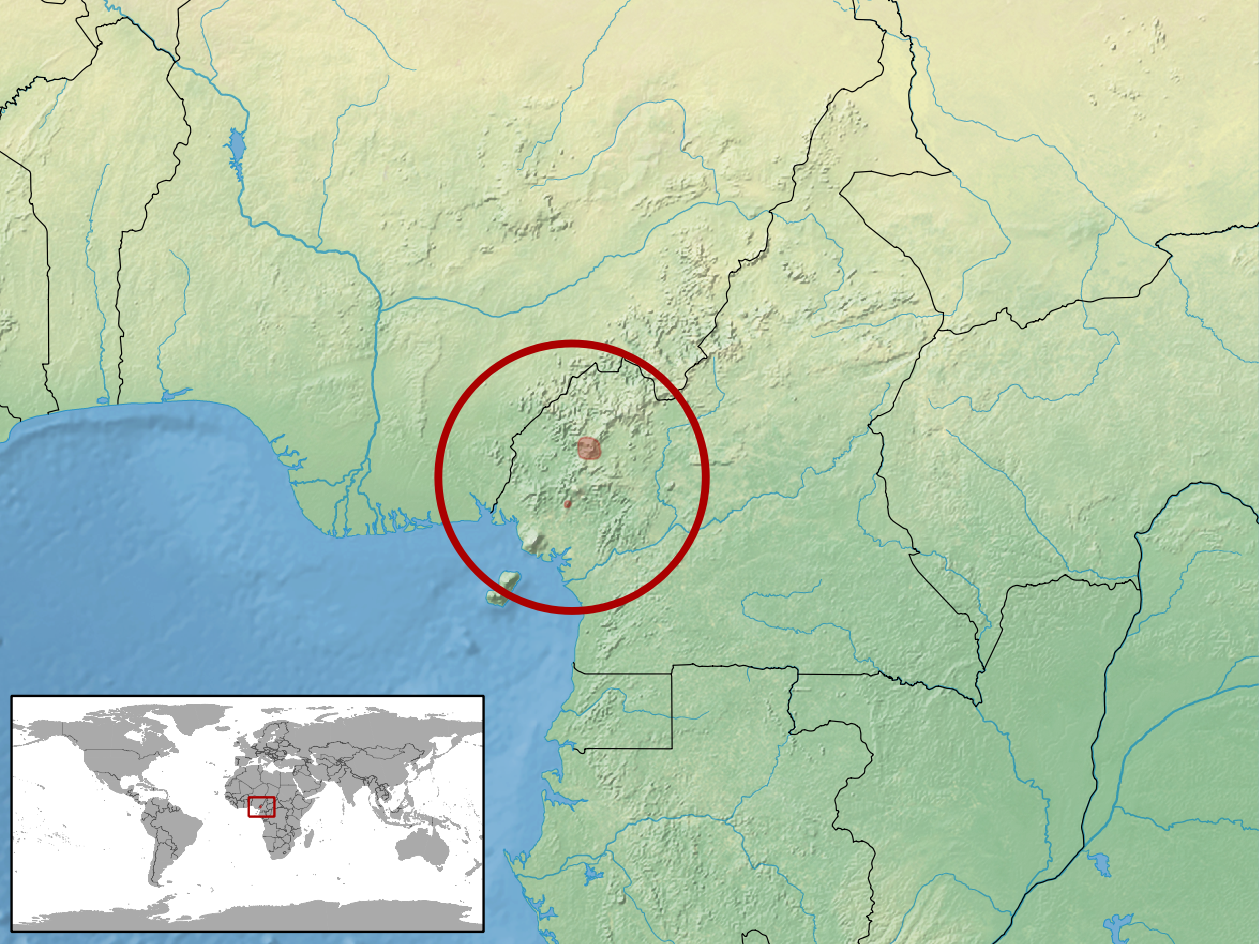 geographic distribution of Leptosiaphos pauliani